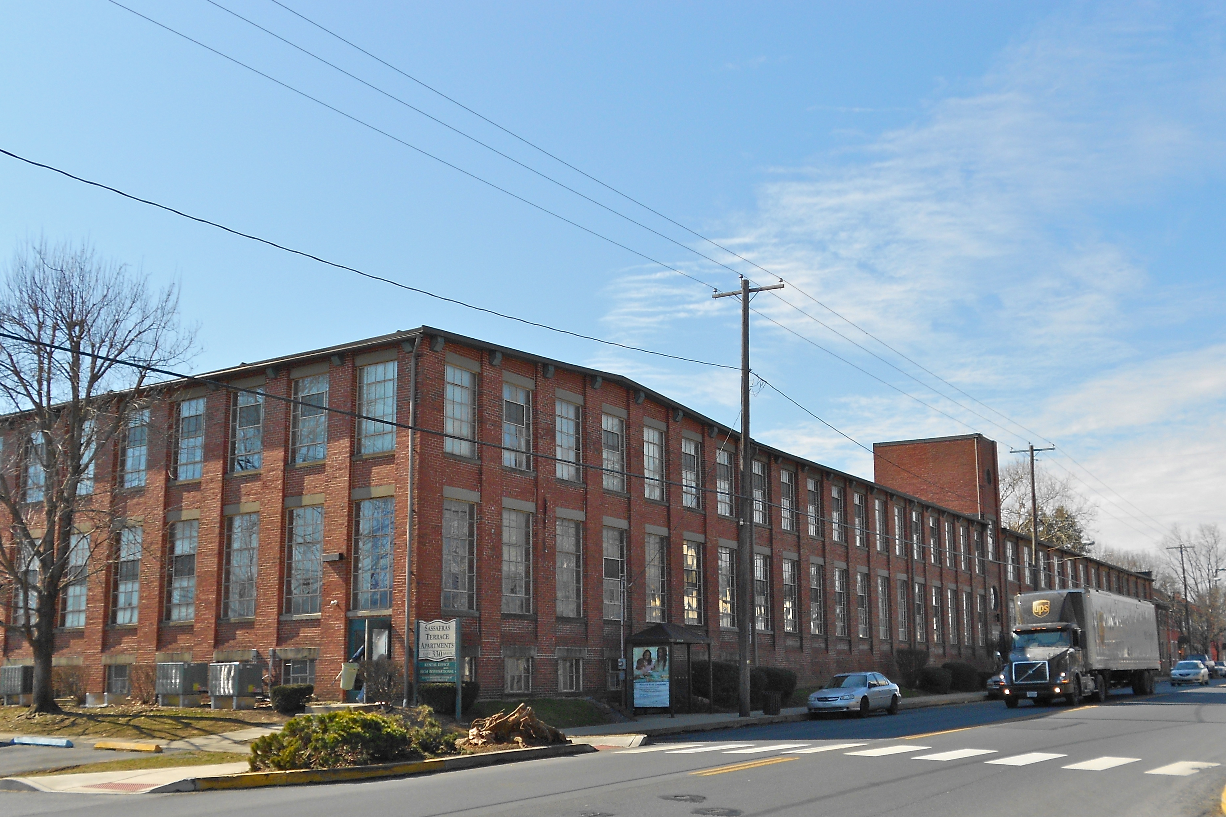 George Brown's Sons Cotton and Woolen Mill on the NRHP since July 21, 1995 324–360 East Main Street, Mount Joy, Lancaster County, Pennsylvania.